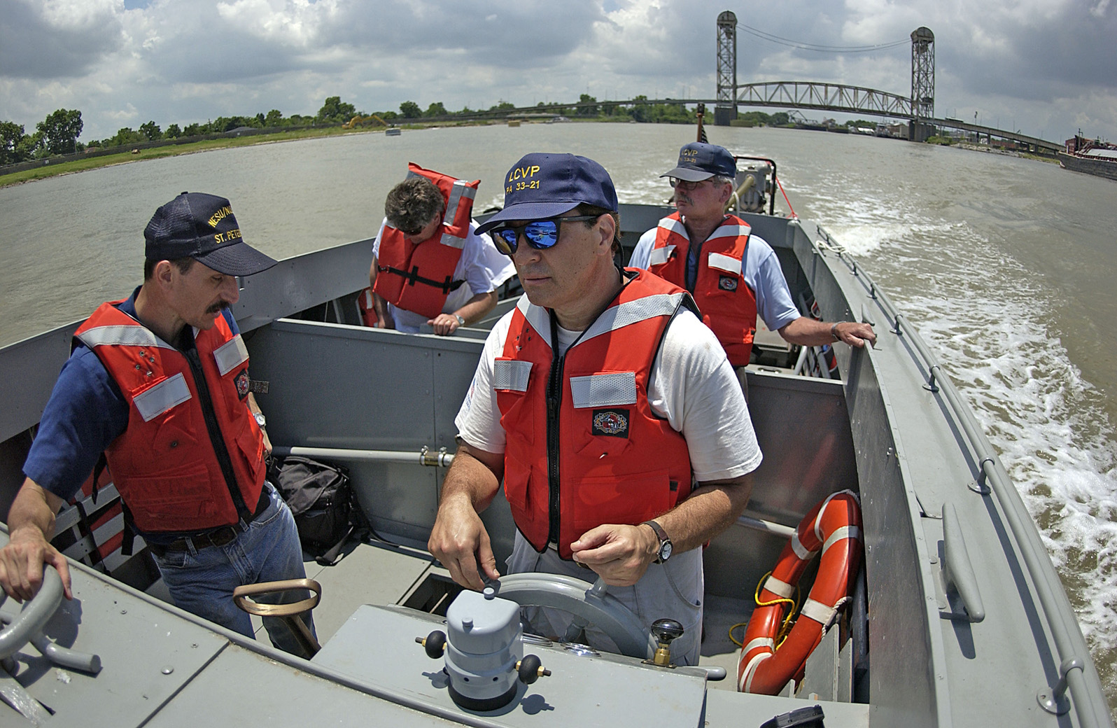 NEW ORLEANS - (Clockwise from far left) Joel Madere, Ed Daroca, Bruce Harris and George Benedetto take a newly-restored Higgins LCP(L) boat out for a test run June 12 in the Industrial Canal, New Orleans. The four men, along with numerous other volunteers, spent thousands of hours restoring the Higgins boat to 85 percent of its original condition as part of a restoration project for the National D-day Museum in New Orleans. The boat's hull number (P10-21) was dedicated in memory of Coast Guard Signalman Douglas Munro who lost his life rescuing a battalion of Marines trapped by enemy Japanese forces at Point Cruz, Guadalcanal, Sept. 27, 1942. U.S. Coast Guard photograph by Petty Officer 3rd Class Nick Cangemi